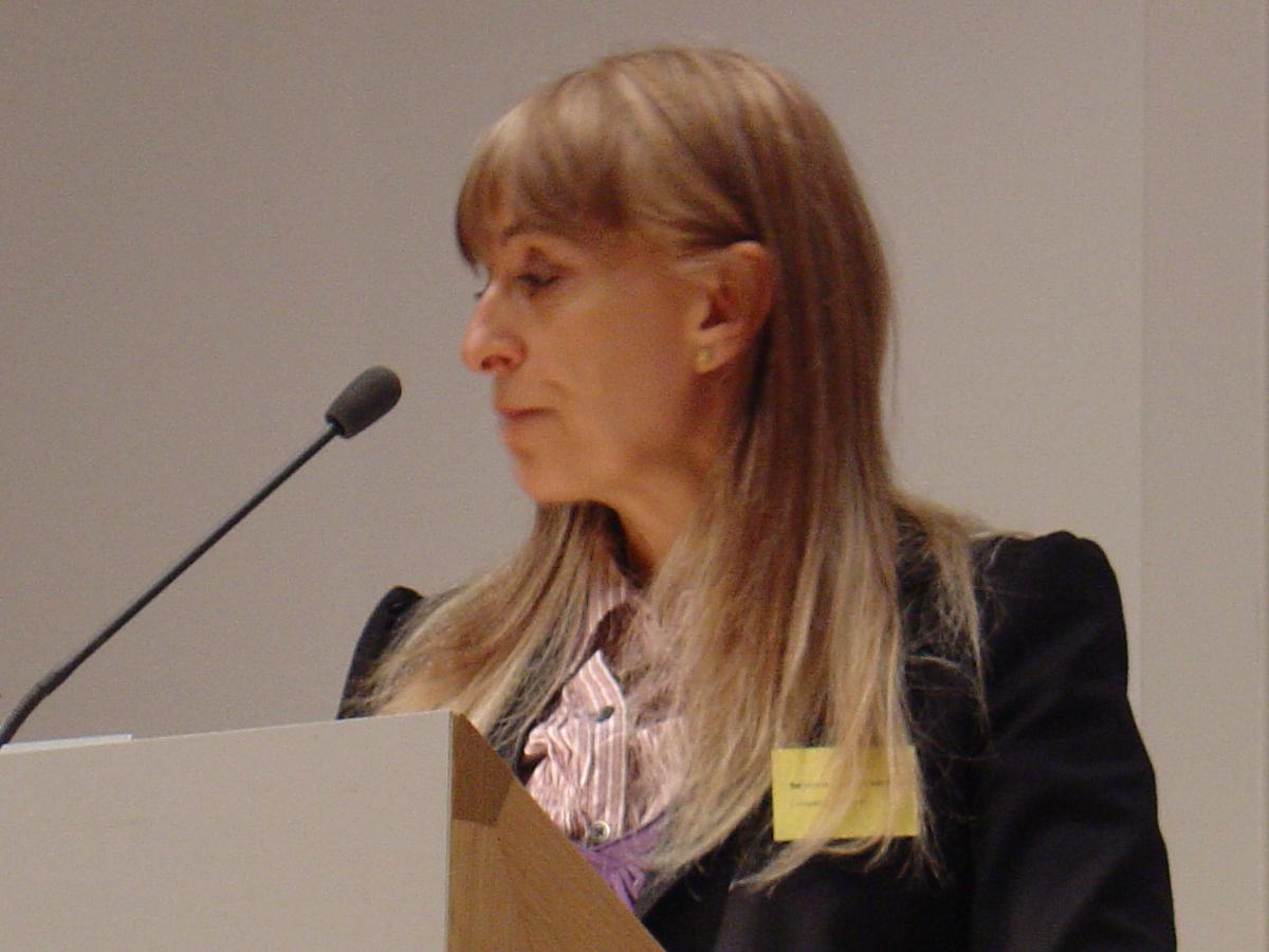 Baroness Susan Greenfield giving a talk at the Said Business School, Oxford, as part of the Tomorrow's People conference on life extension in March 2006.